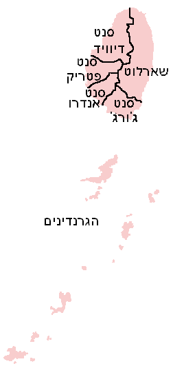 The Parishes in Saint Vincent and the Grenadines in Hebrew